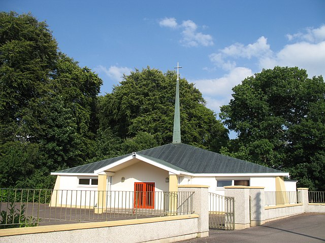 St Joseph's Church A modern Catholic church in Spean Bridge. The slender spire gets it the heavyweight symbol on the Ordnance Survey maps.